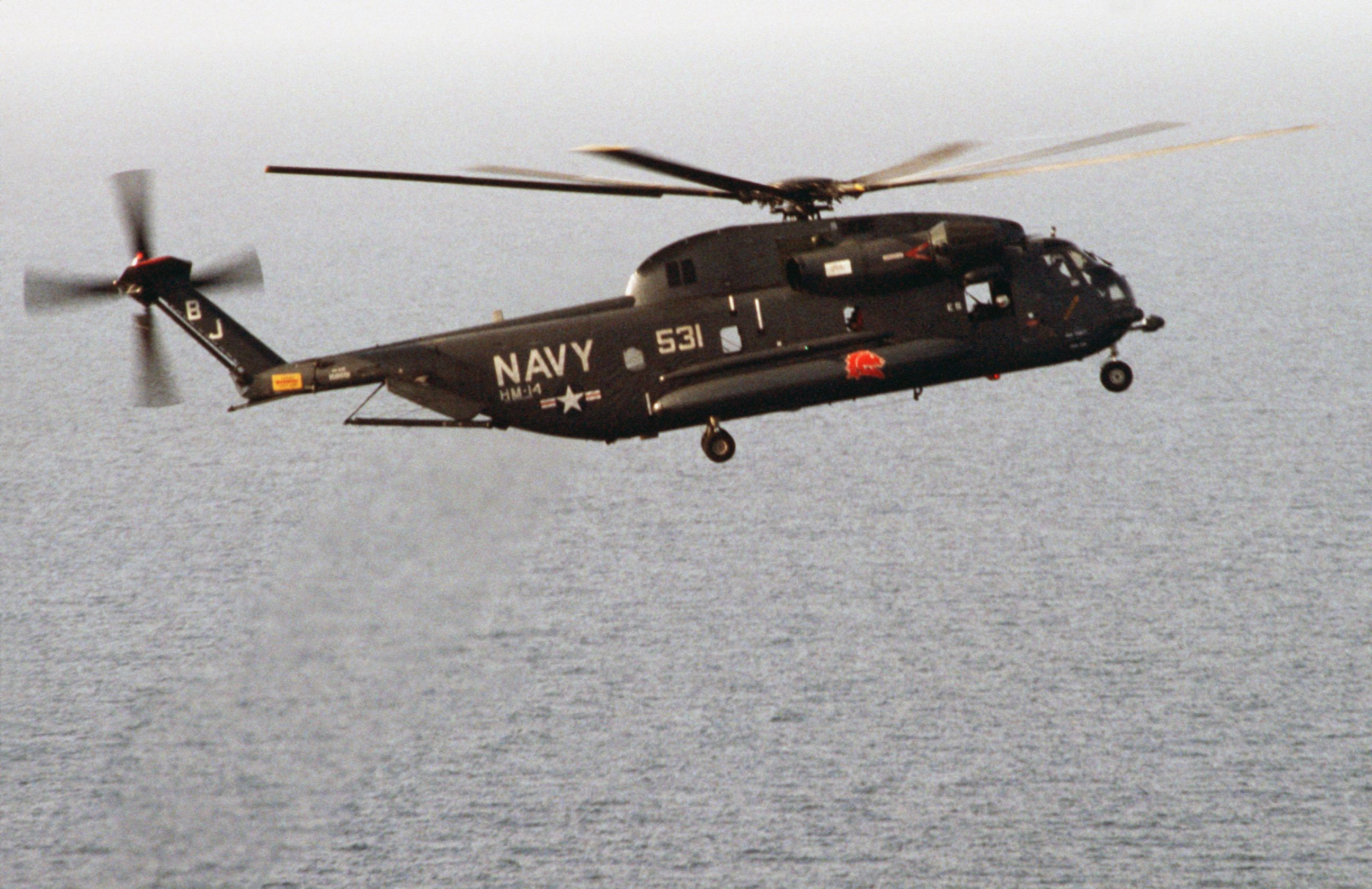 A U.S. Navy Sikorsky RH-53D Sea Stallion helicopter of Helicopter Mine Countermeasures Squadron 14 (HM-14) in the Persian Gulf, in 1987. HM-14 was operation from the amphibious assault ship USS Guadalcanal (LPH-7).